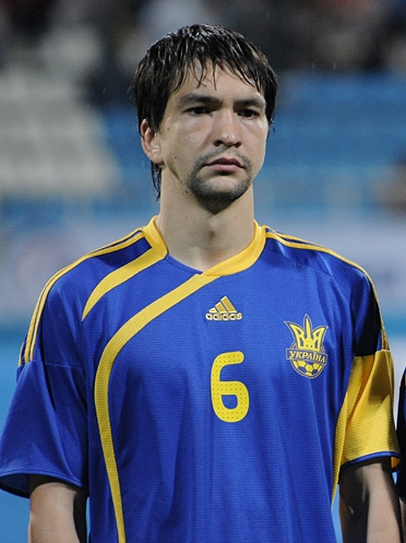 Andriy Rusol